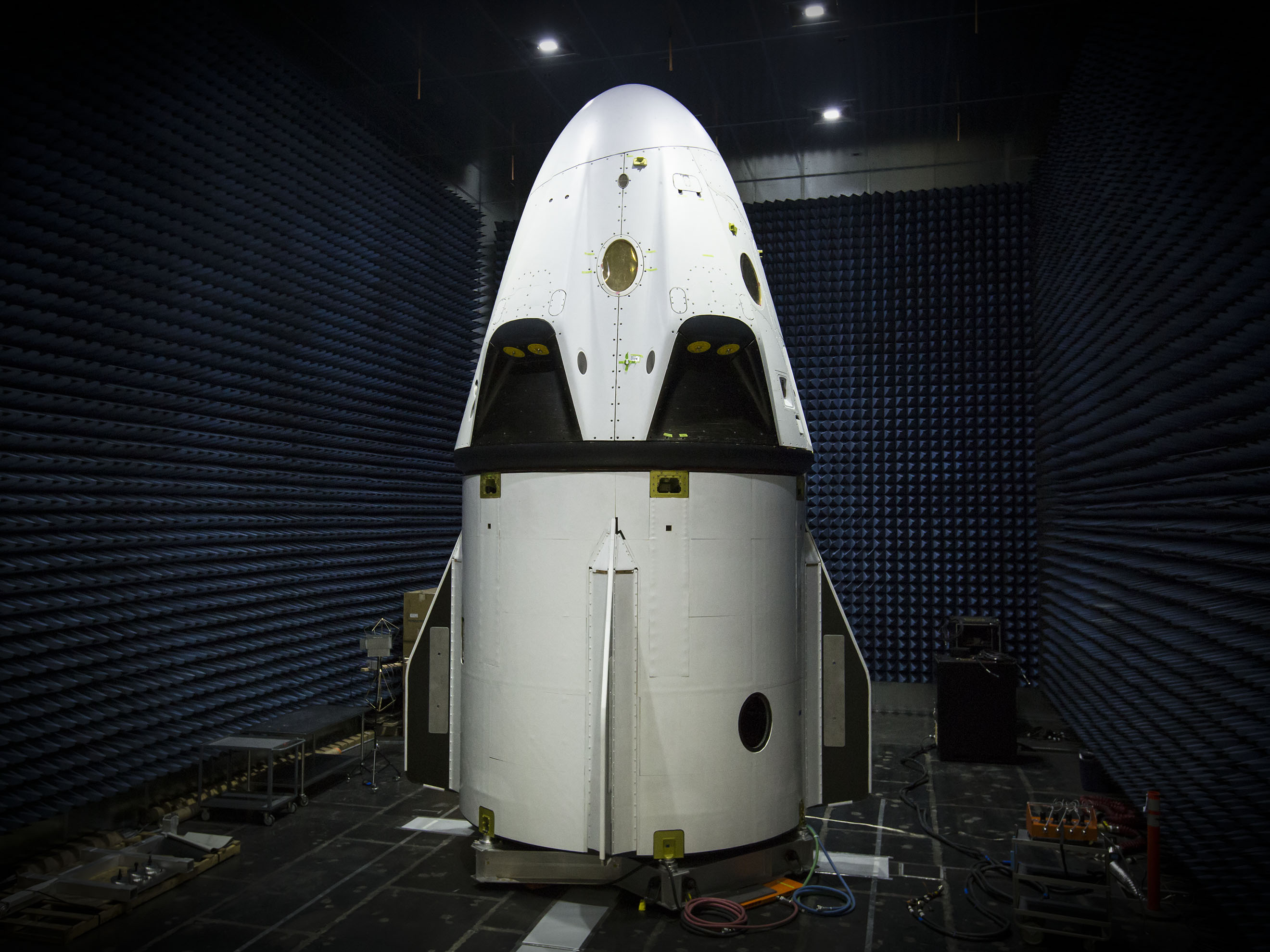 Crew Dragon, America’s next generation crewed spacecraft is almost ready for a test flight. Pad abort vehicle shipping to FL shortly.